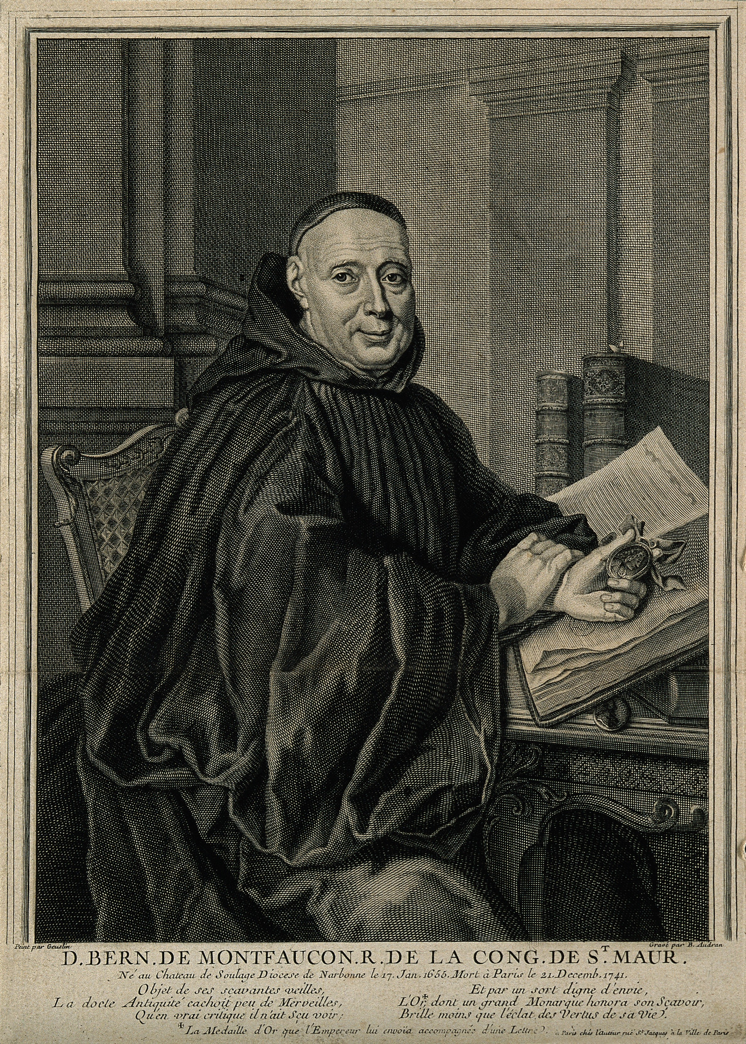 Bernard de Montfaucon. Line engraving by B. Audran, 1744, after C. E. Geuslin. Iconographic Collections Keywords: portrait prints; engravings; Bernard de Montfaucon